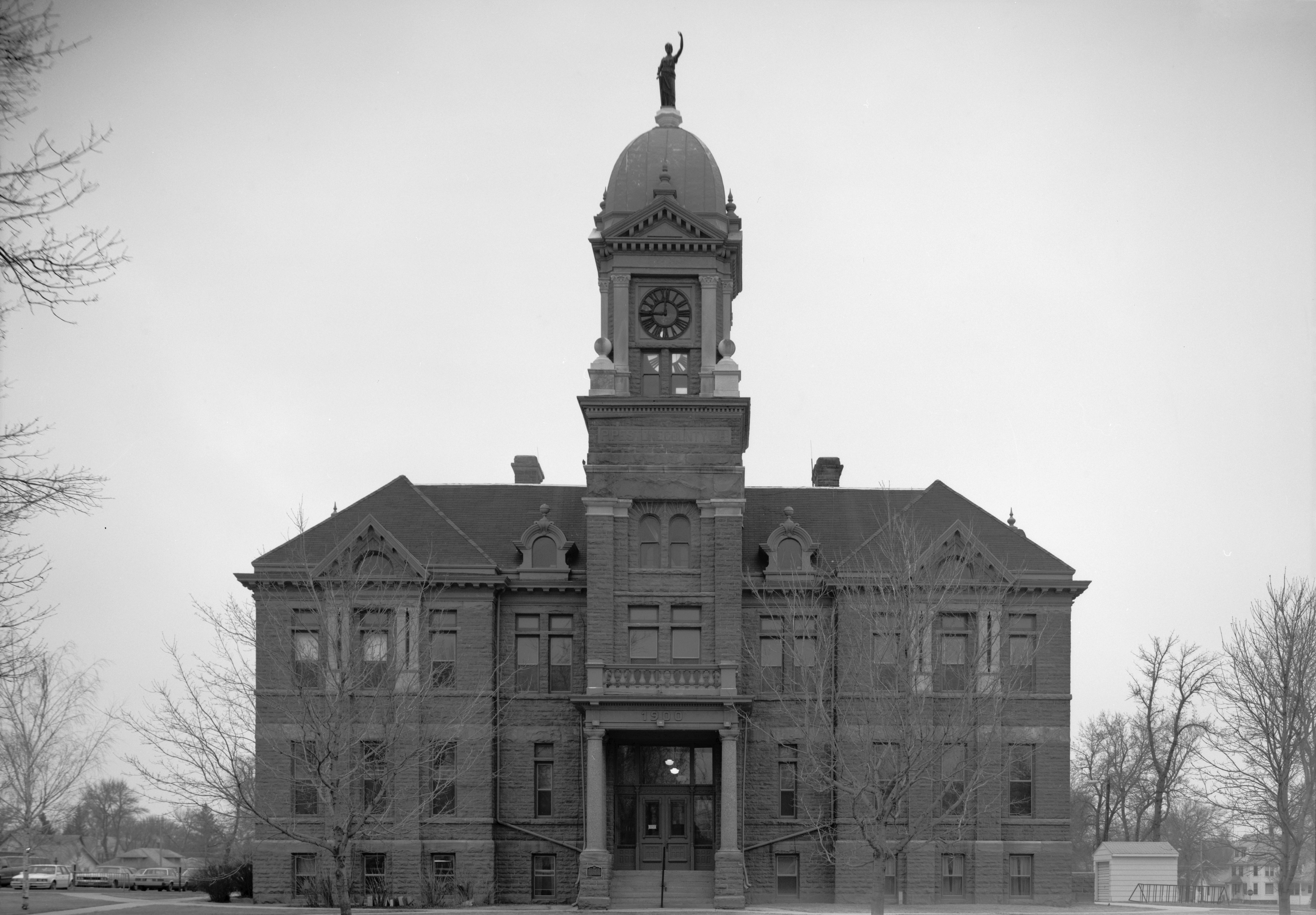 Pipestone Historic District, Pipestone County Courthouse, Third Street, Pipestone, Pipestone County, MN. North (front) elevation